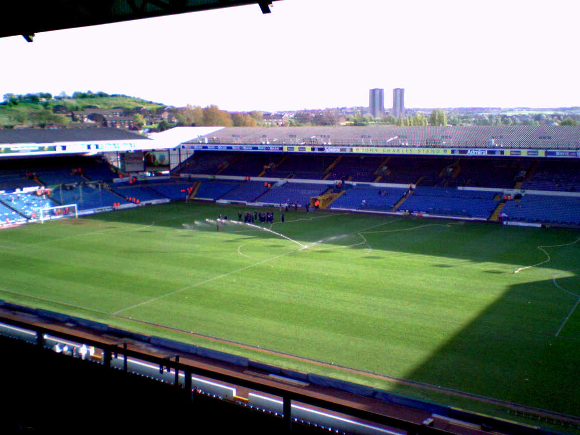 Elland Road pitch